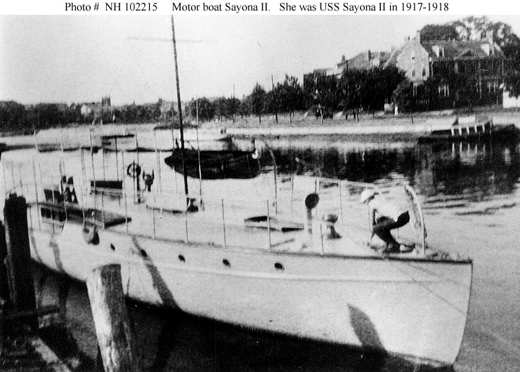 The motorboat or motor yacht Sayona II prior to her United States Navy service as the patrol vessel .